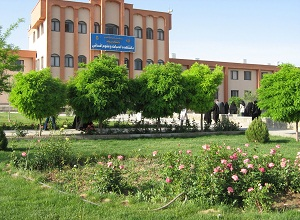 دانشکده ادبیات دانشگاه بیرجند